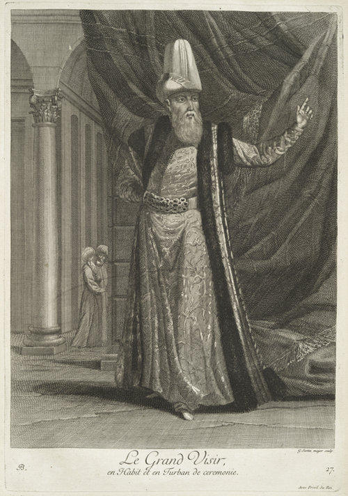 Illustrations of Ottomans by Jean-Baptiste Vanmour, 1707